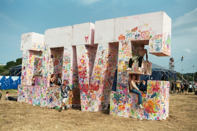 Glasto 'Love' sign from 2003